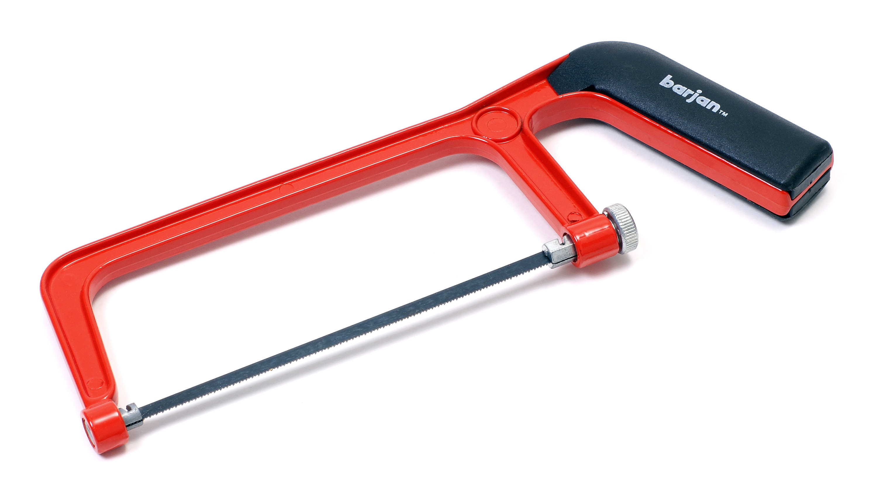 Barjan 075160 replaceable blade hacksaw.